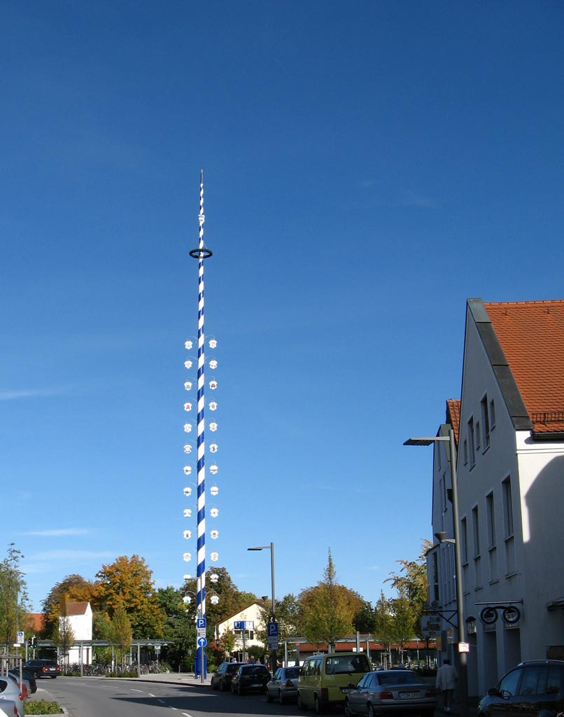 Garching bei Muenchen (Germany), the Maypole